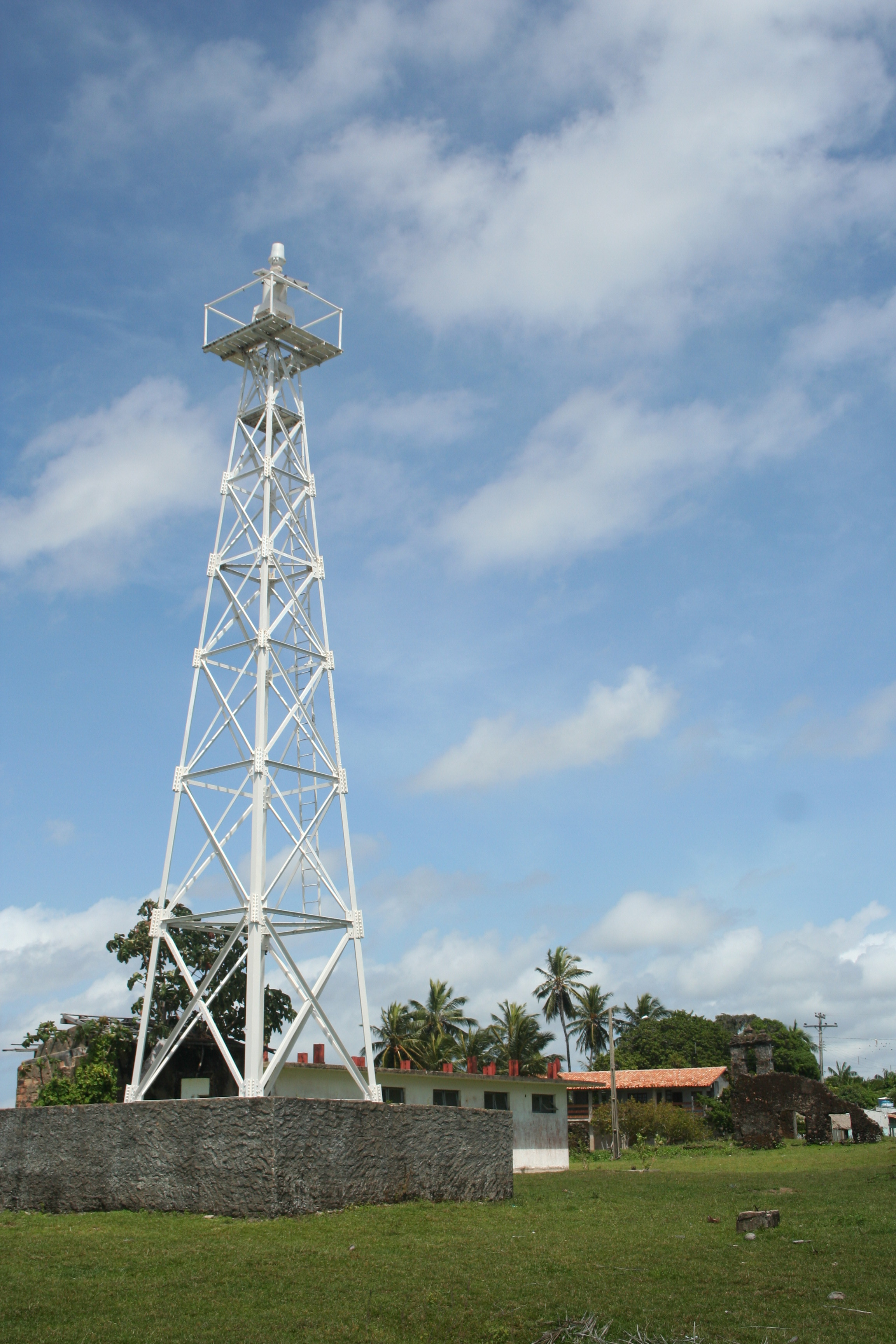 Joanes Lighthouse, on Ponta da Guarita, a promontory on the west side of the Baía de Marajó about 15 km (9 mi) south of Salvaterra, Pará state, Brazil.